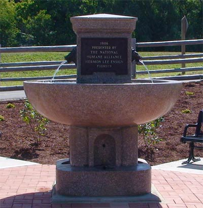 This is the National Humane Alliance fountain given to Derby, CT in 1906 and restored in 2007 as a gateway to the Derby Greenway. The fountain has three levels. The top level contains spigots in the shape of lion's heads for humans. Below that is a large circular bowl for horses and at the base are smaller bowls for dogs and cats.